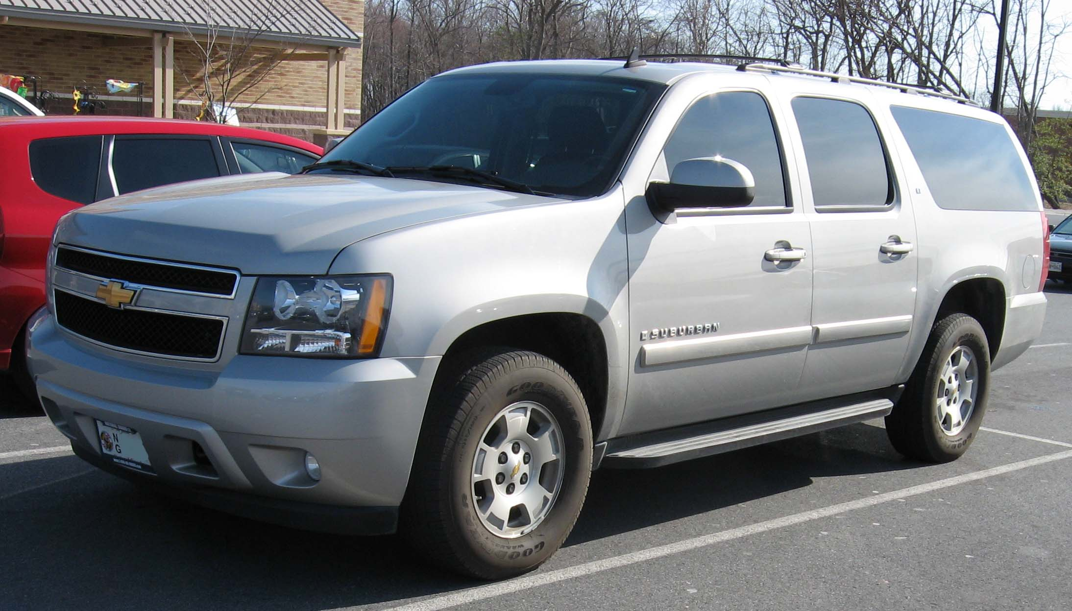 2007 Chevrolet Suburban photographed in USA.